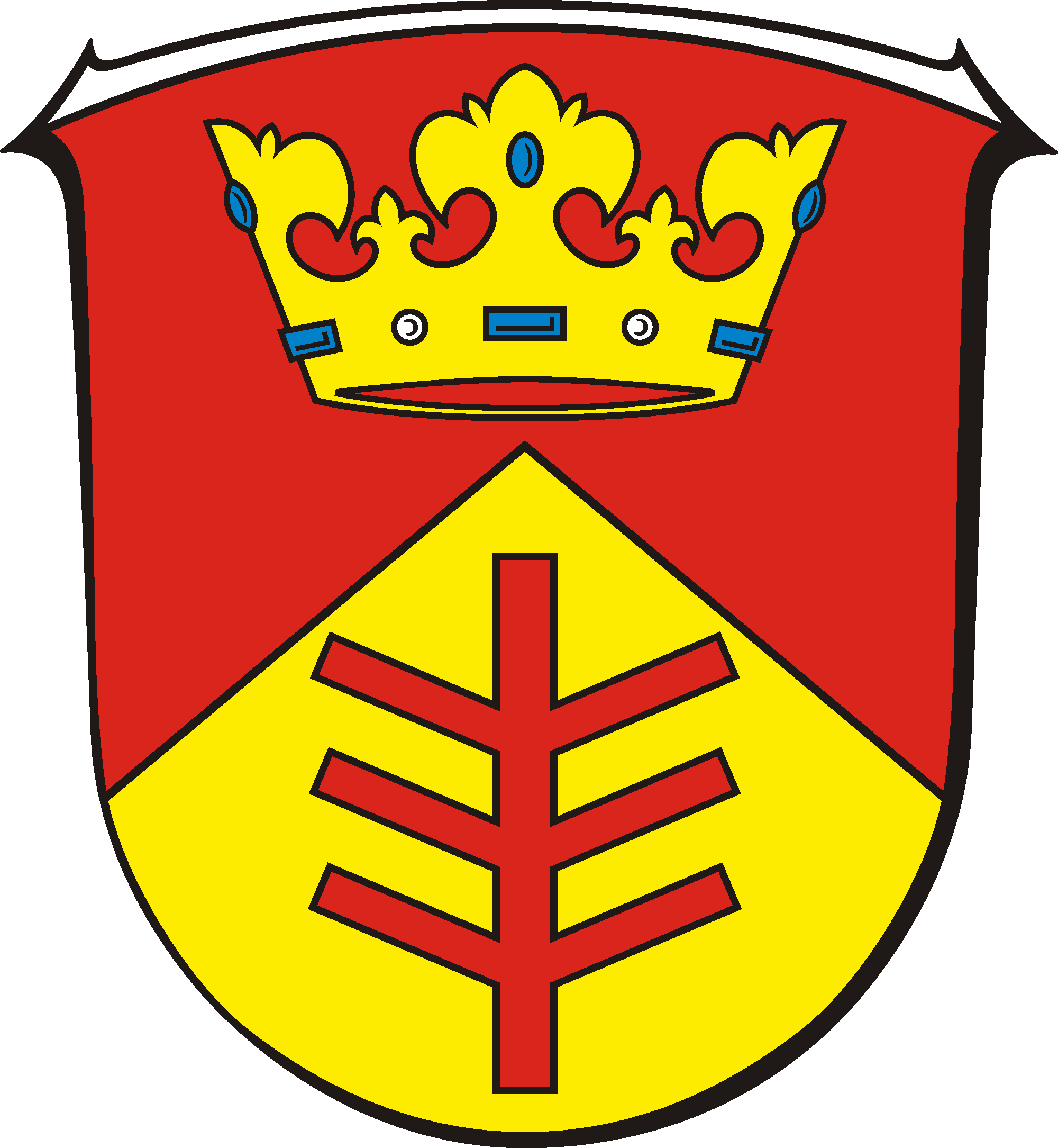 Coat of Arms of Florstadt